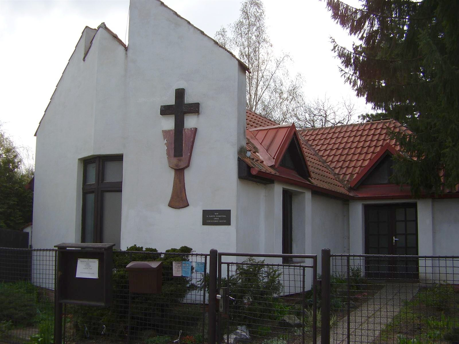 Church of the Czechoslovak Hussite Church in K Nádraží street, Hostivice, Prague-West District.